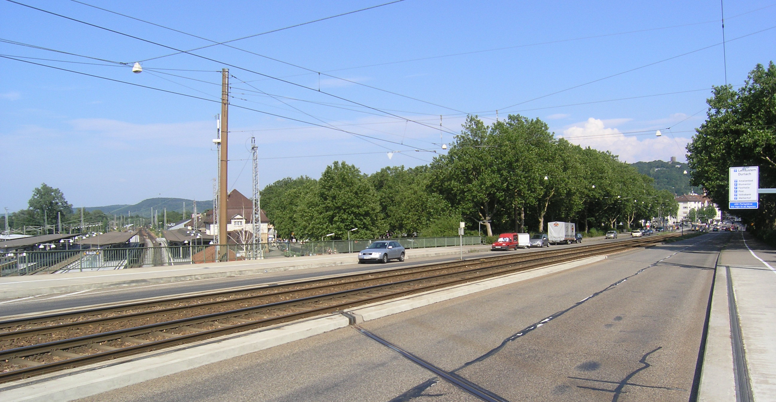 Durlach in the city of Karlsruhe, Germany: Railway station and road from Karlsruhe with tram track